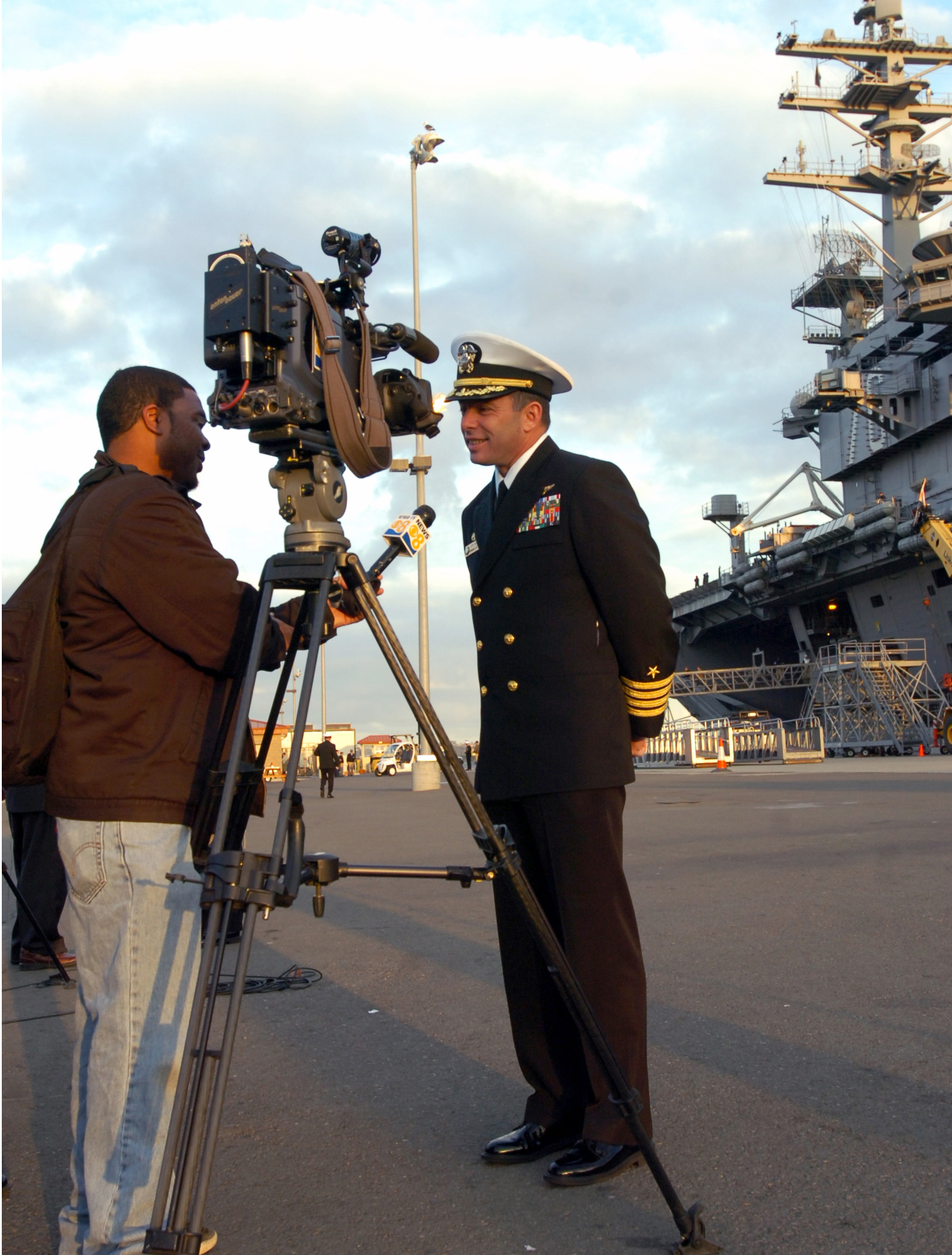 San Diego, Calif. (Jan. 27, 2007) – Local San Diego news media interview the Commanding Officer of USS Ronald Reagan (CVN 76), Capt. Terry B. Kraft, on the morning of the ship's scheduled departure on a surge deployment. USS Ronald Reagan (CVN 76) and attached ships of the Reagan Carrier Strike Group (CSG) surge deployed to the 7th Fleet Area of Operations from Naval Station North Island on Jan. 27. Surge deployments are part of the Navy’s Fleet Response Plan (FRP), which ensures ships are able to respond to real-world situations by maintaining high states of readiness during their surge windows. The Reagan CSG is comprised of, the nuclear-powered aircraft carrier Ronald Reagan, Commander Carrier Strike Group 7 (CCG 7), Carrier Air Wing (CVW) 14, Destroyer Squadron (DESRON) 7, the guided-missile cruiser USS Lake Champlain (CG 57), the guided-missile destroyer USS Russell (DDG 59), and Explosive Ordnance Disposal Unit 11, Detachment 15.